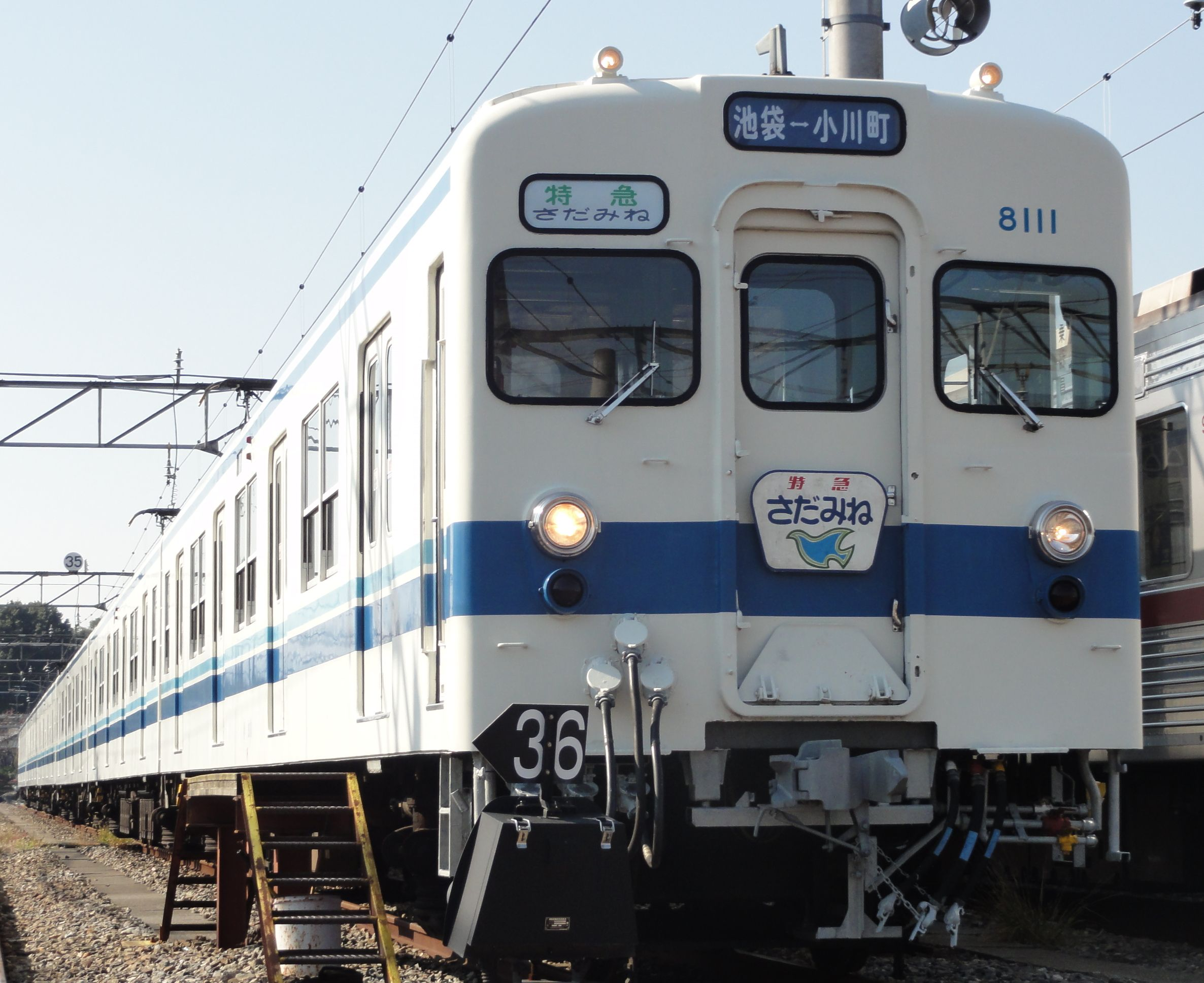 Tobu 8000 series EMU set 8111 at Shinrinkoen Depot Open day